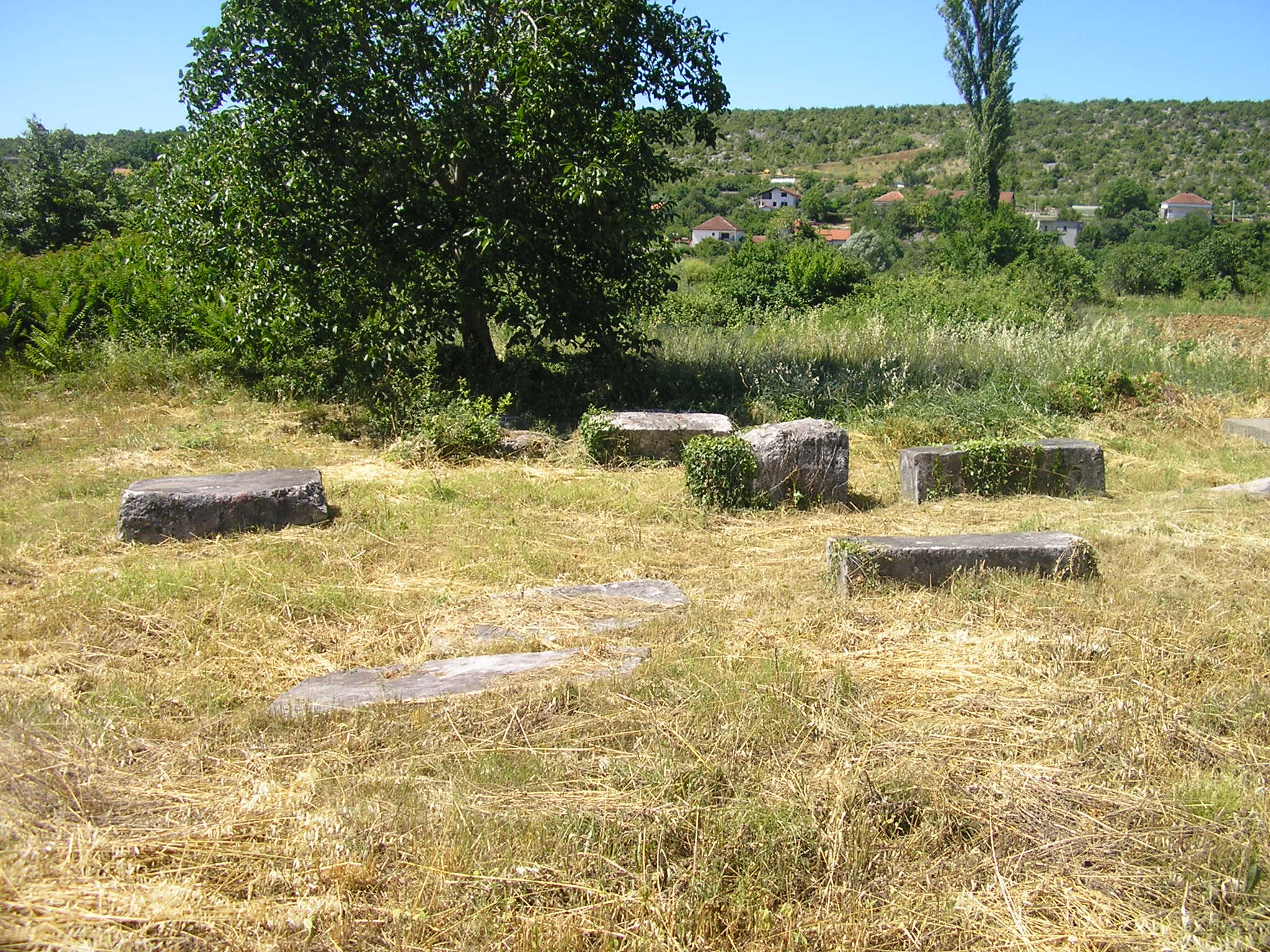 Studenci necropolis